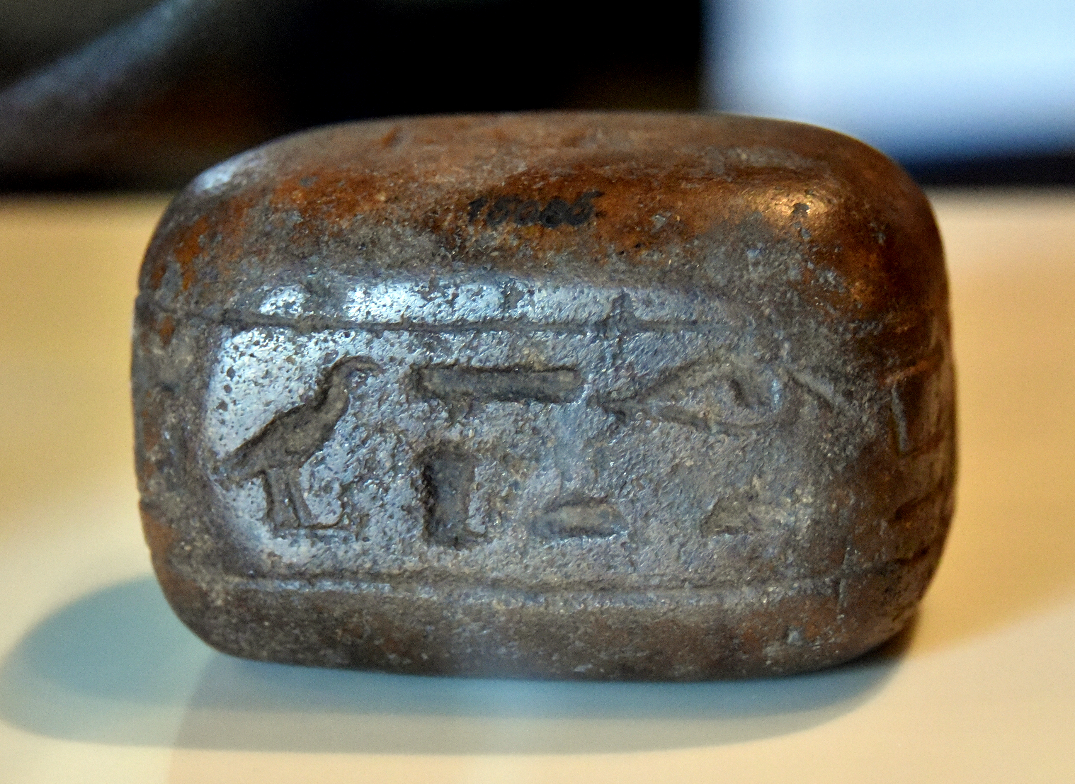 Stone inscribed with the name of Senenmut, from Thebes, Egypt. New Kingdom, 18th Dynasty, 1497-1458 BCE. Neues Museum, Berlin, Germany. Quartzite.